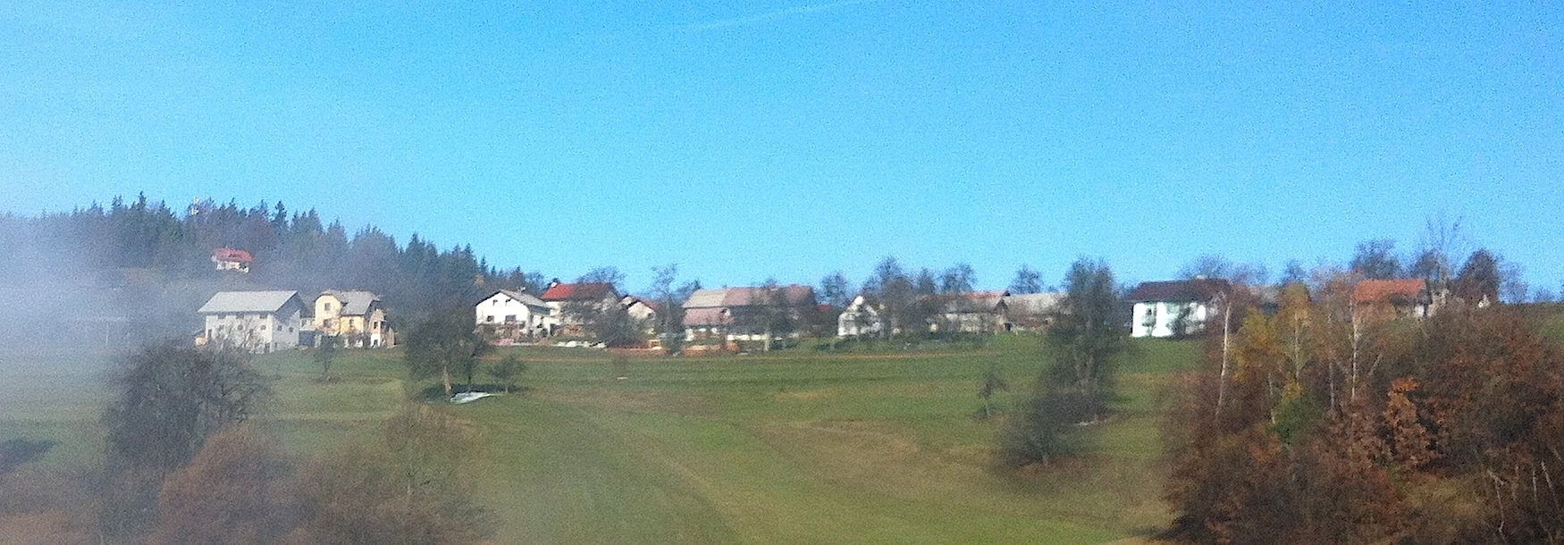 Veliki Lipoglav, village in Slovenia